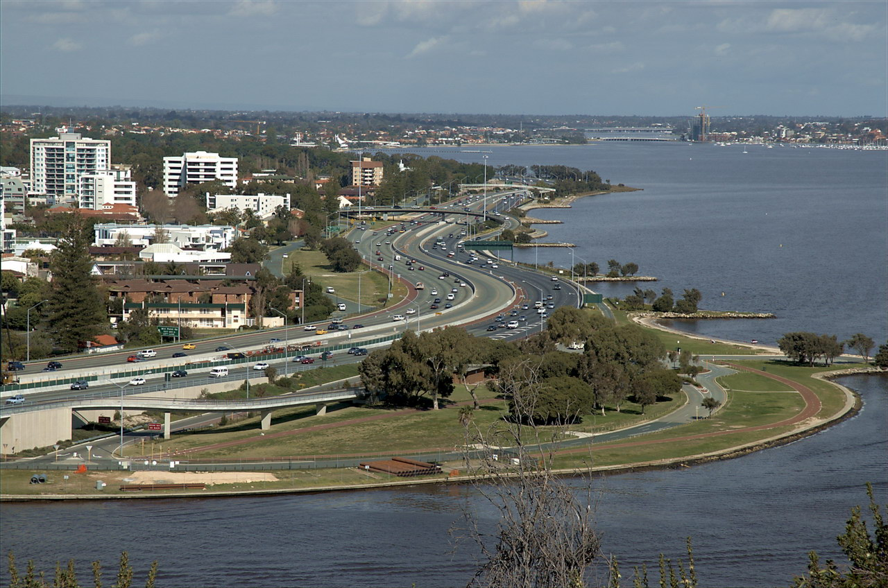 Kwinana Freeway from Kings Park.